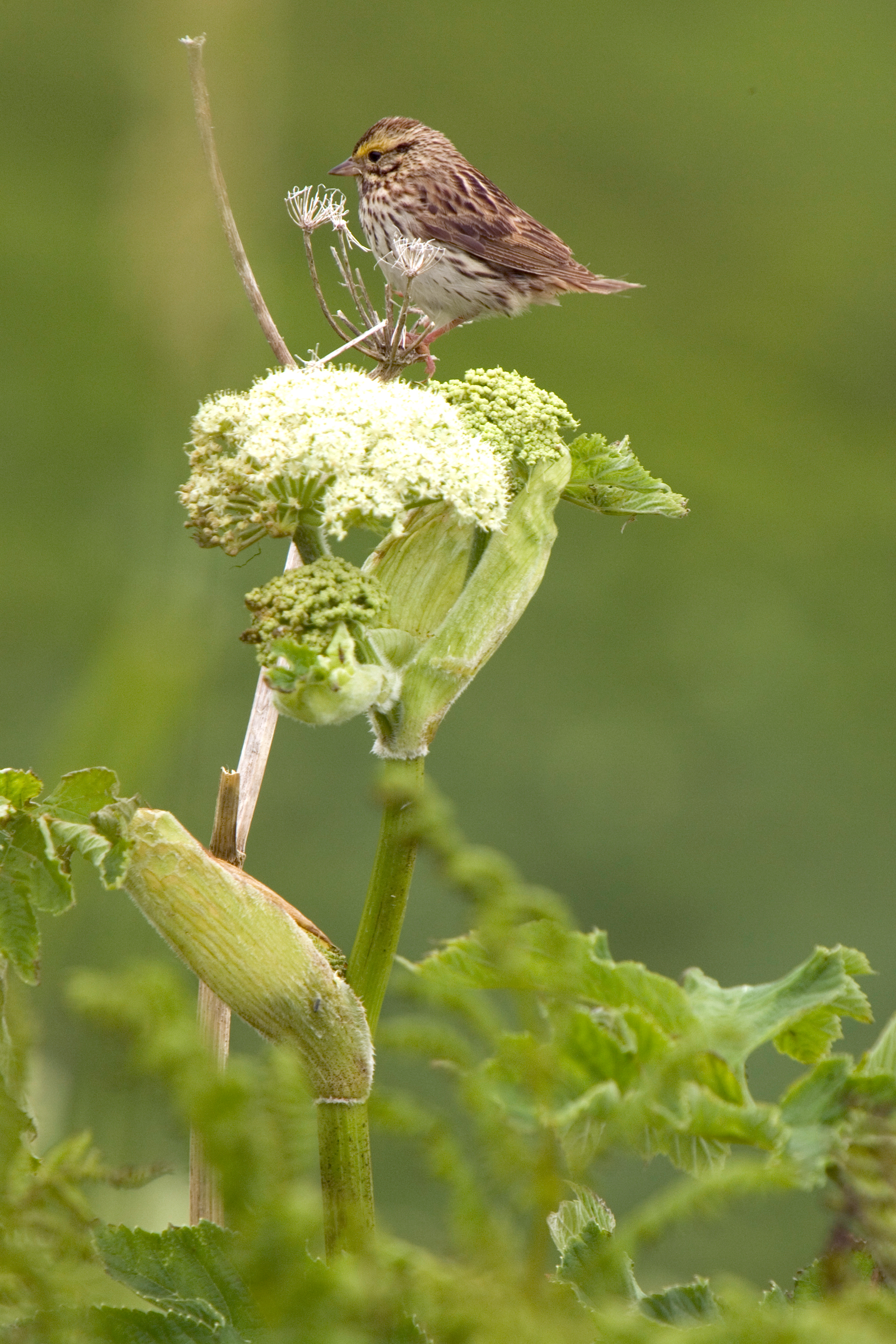 Savannah Sparrow (Passerculus sandwichensis), Chowiet Island, Alaska (Alaska Maritime National Wildlife Refuge)